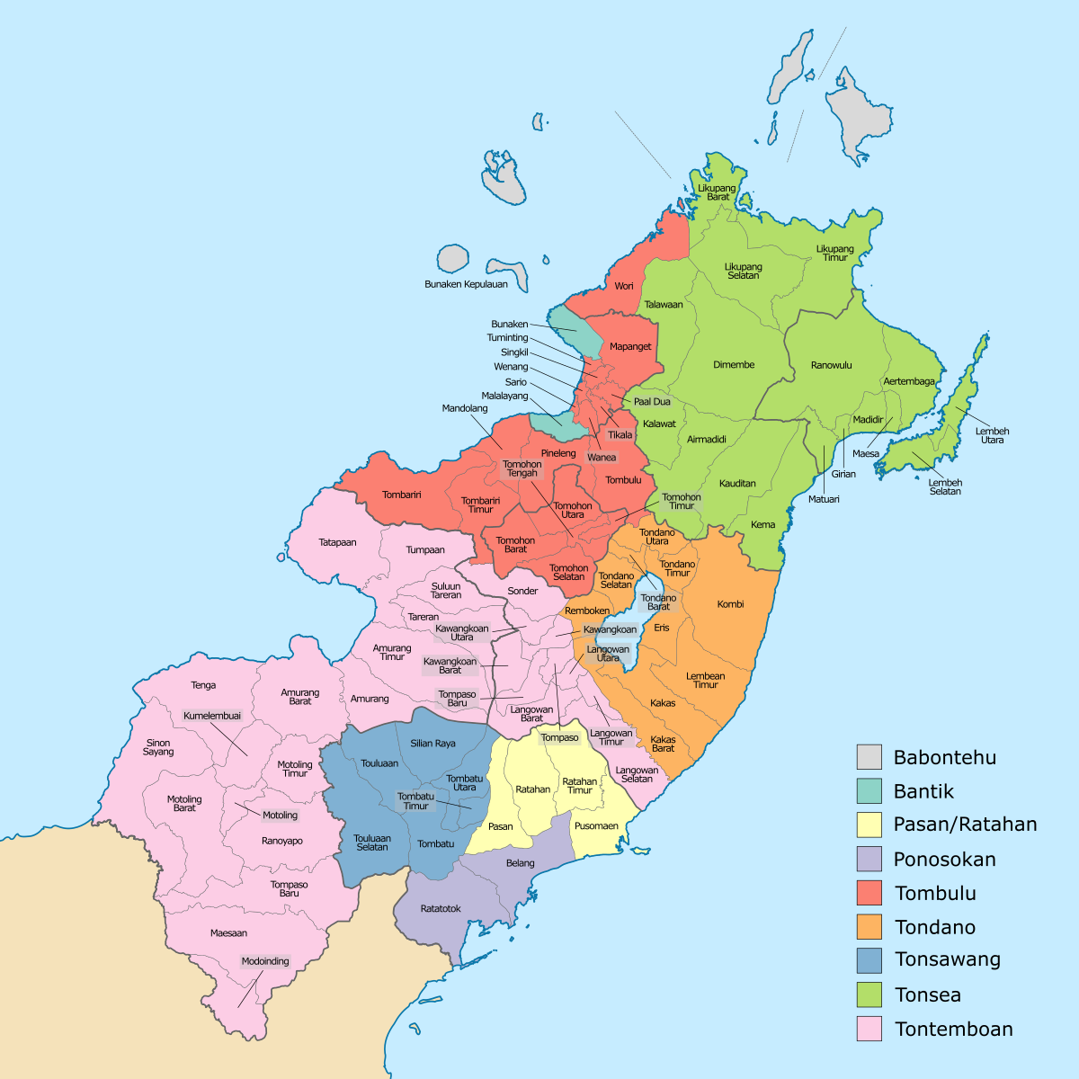 Estimated map of Minahasan sub-ethnic group regions based on current sub-district borders.